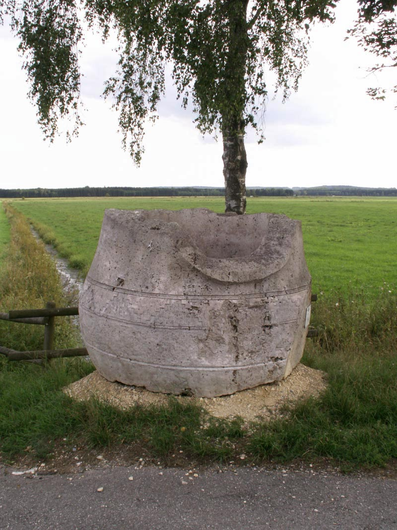 Skulpturenfeld Oggelshausen Bildhauersymposium 2000 Irma Ortega Pérez, Gefaess